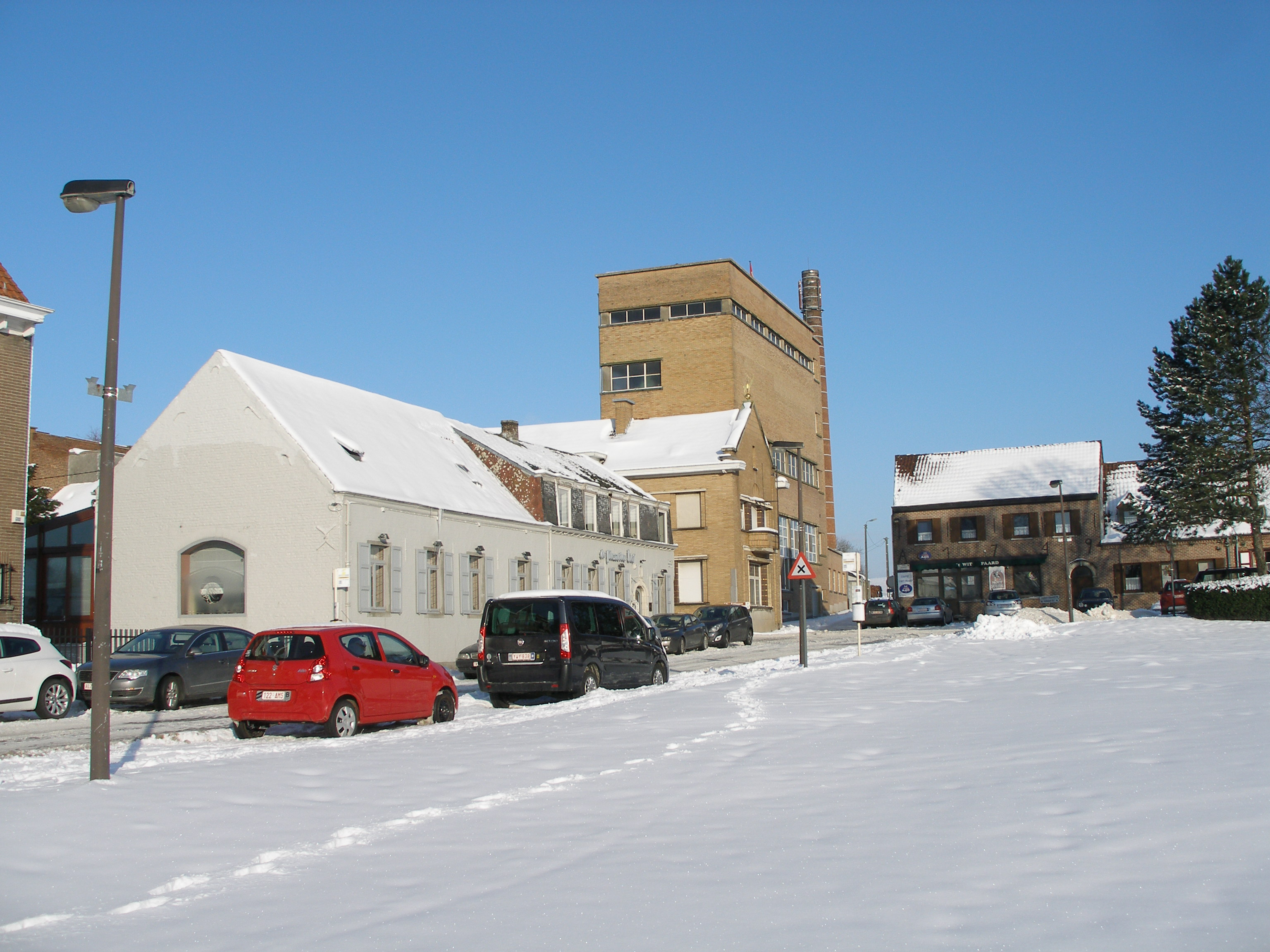 Brewery "Mort Subite" (Address: Lierput 1, 1730 Kobbegem, Belgium)